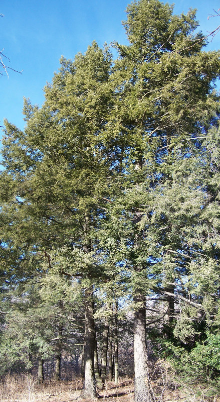 Eastern Hemlock Tsuga canadensis specimens at Morton Arboretum